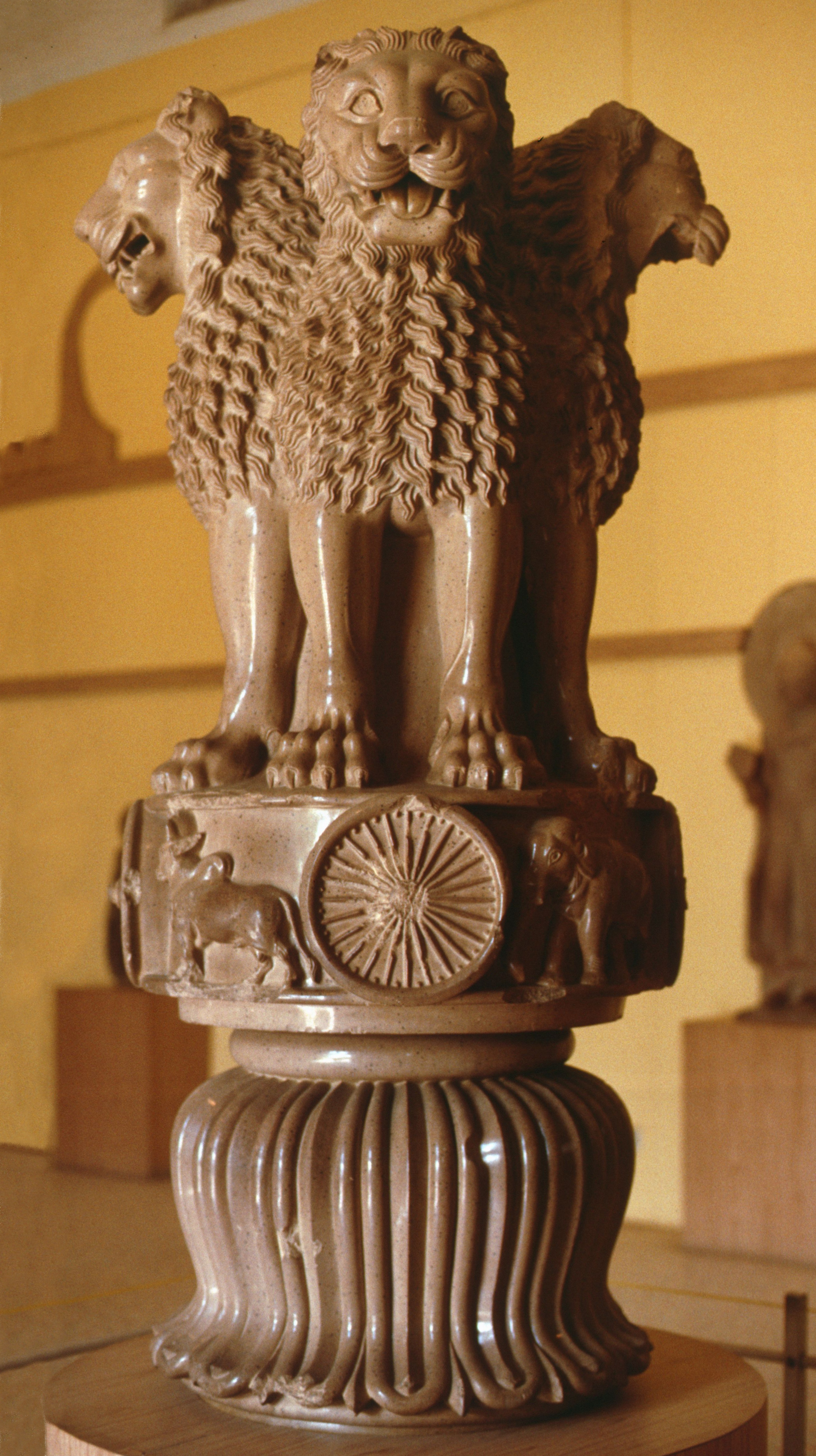 Sarnath Lion Capital, Mauryan period, circa 250 BCE. The capital in 1905 at the time of discovery (different photographic angle).